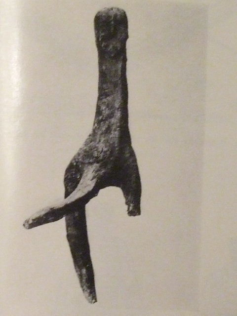 Male figure of oak, found in Broddenbjerg bog near Viborg Denmark. Around 600 B.C.